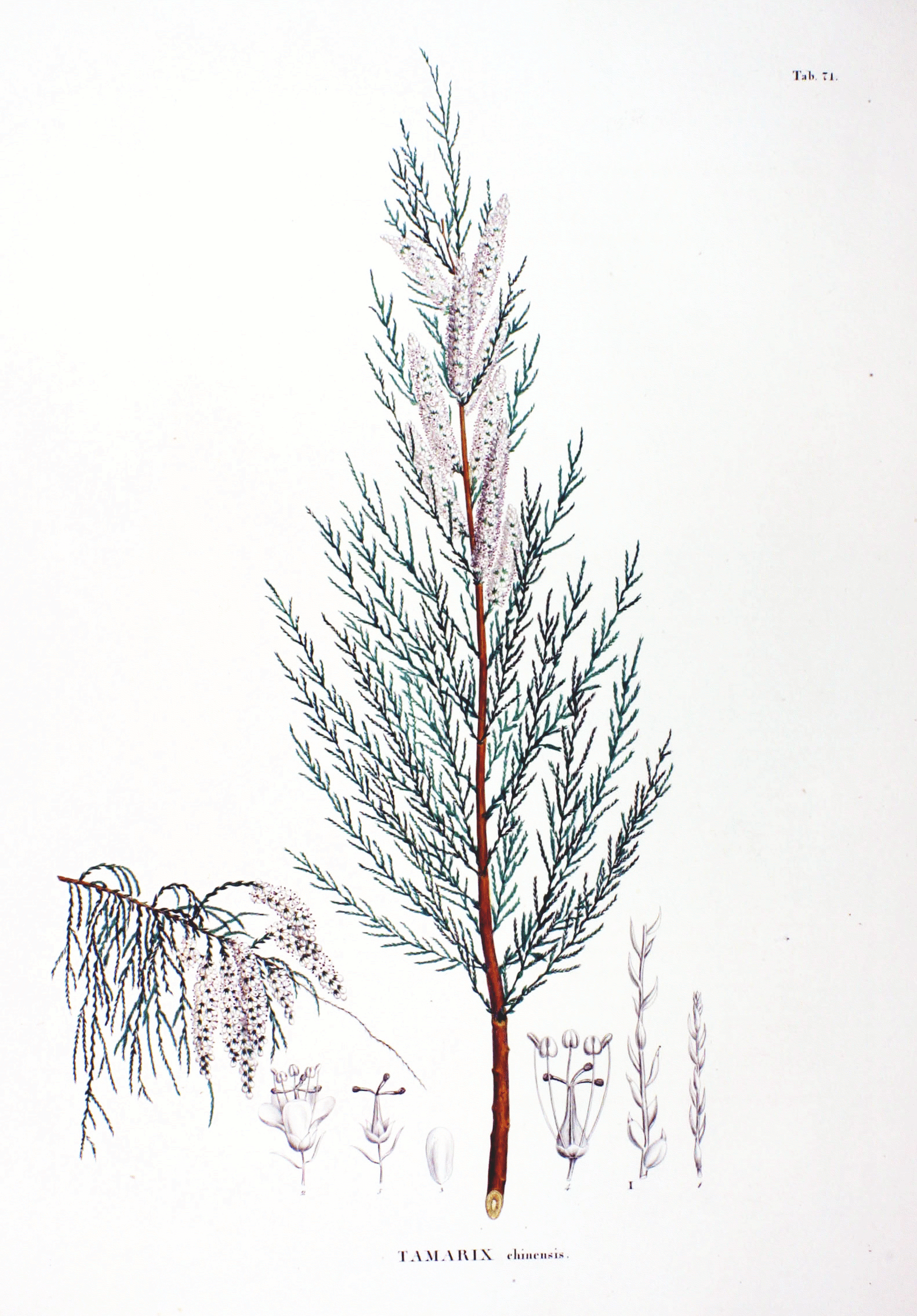 Plate from book